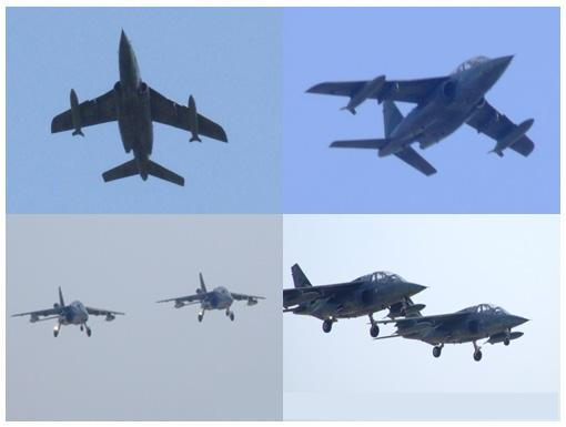 Royal Thai Air Force Alpha Jet A during Children's Day 2007 in Wing6 Don Mueang AFB (Photo By Analayo Korsakul)